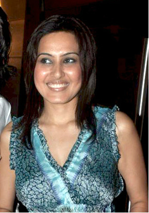 Kamya Panjabi 3rd Gold Awards 2010